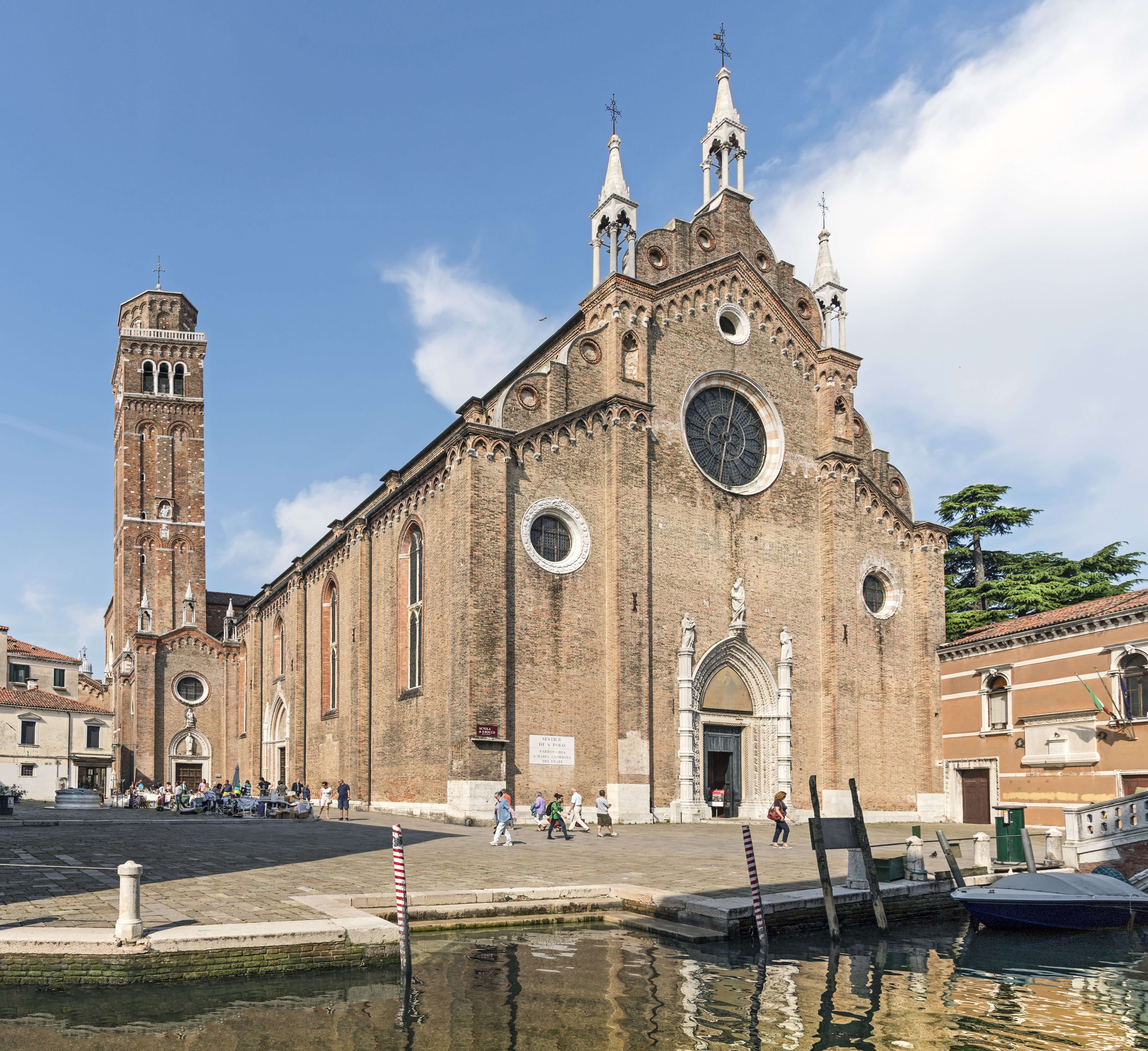 The Basilica di Santa Maria Gloriosa dei Frari, usually just called the Frari in Venice.